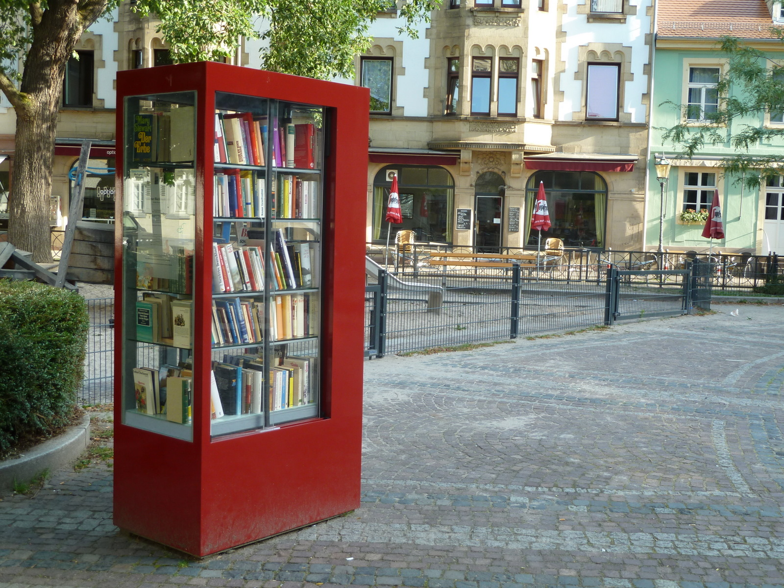 Public bookcase on Lidellplatz in Karlsruhe, Germany